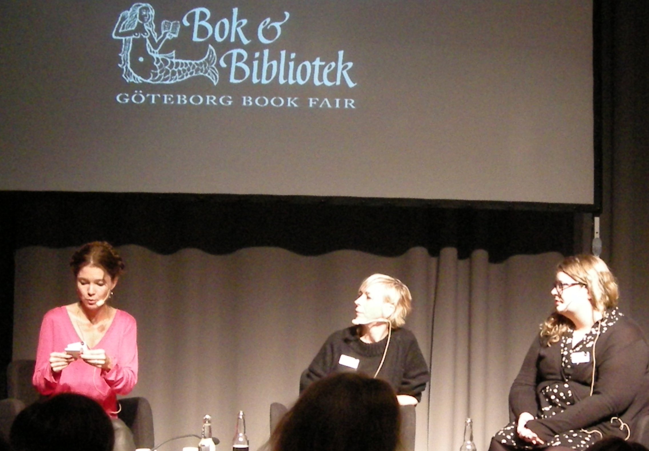 Swedish writers Åsa Anderberg Strollo, Jenny Jägerfeld and Sara Ohlsson at Göteborg Book Fair 2012